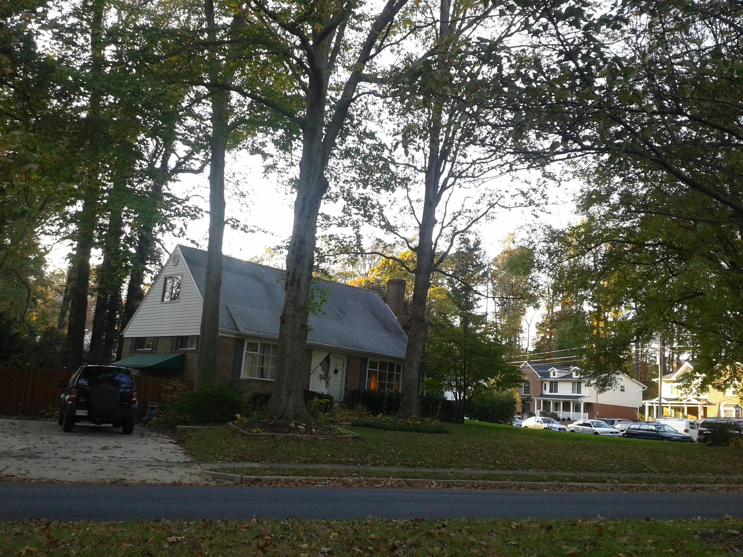 Kings Park, Fairfax County, Virginia Taken by me in October, 2016